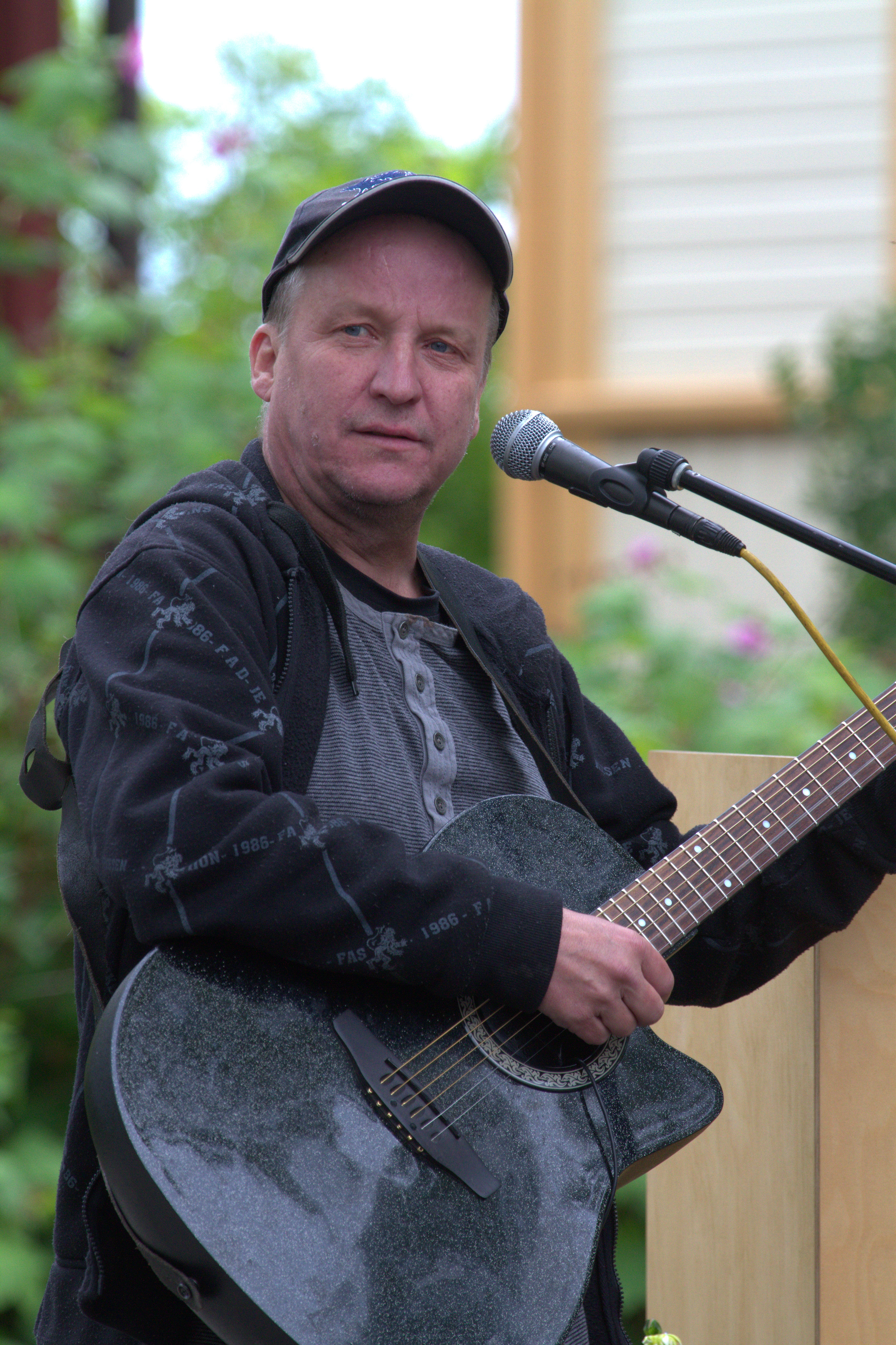 Turkka Mali finnish singer